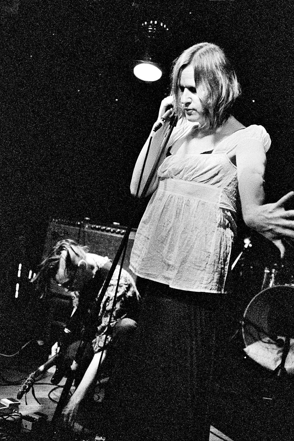 Cindytalk. The most avant garde act to play the Latest Music Bar according to its in-house sound man. Brighton Sept. 2009.